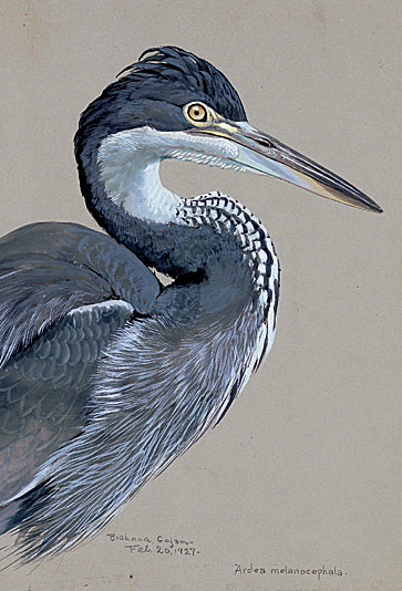 Painting of Black-headed Heron, Ardea melanocephala